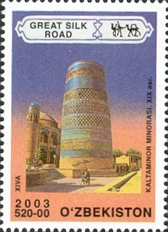 Stamps of Uzbekistan, 2003